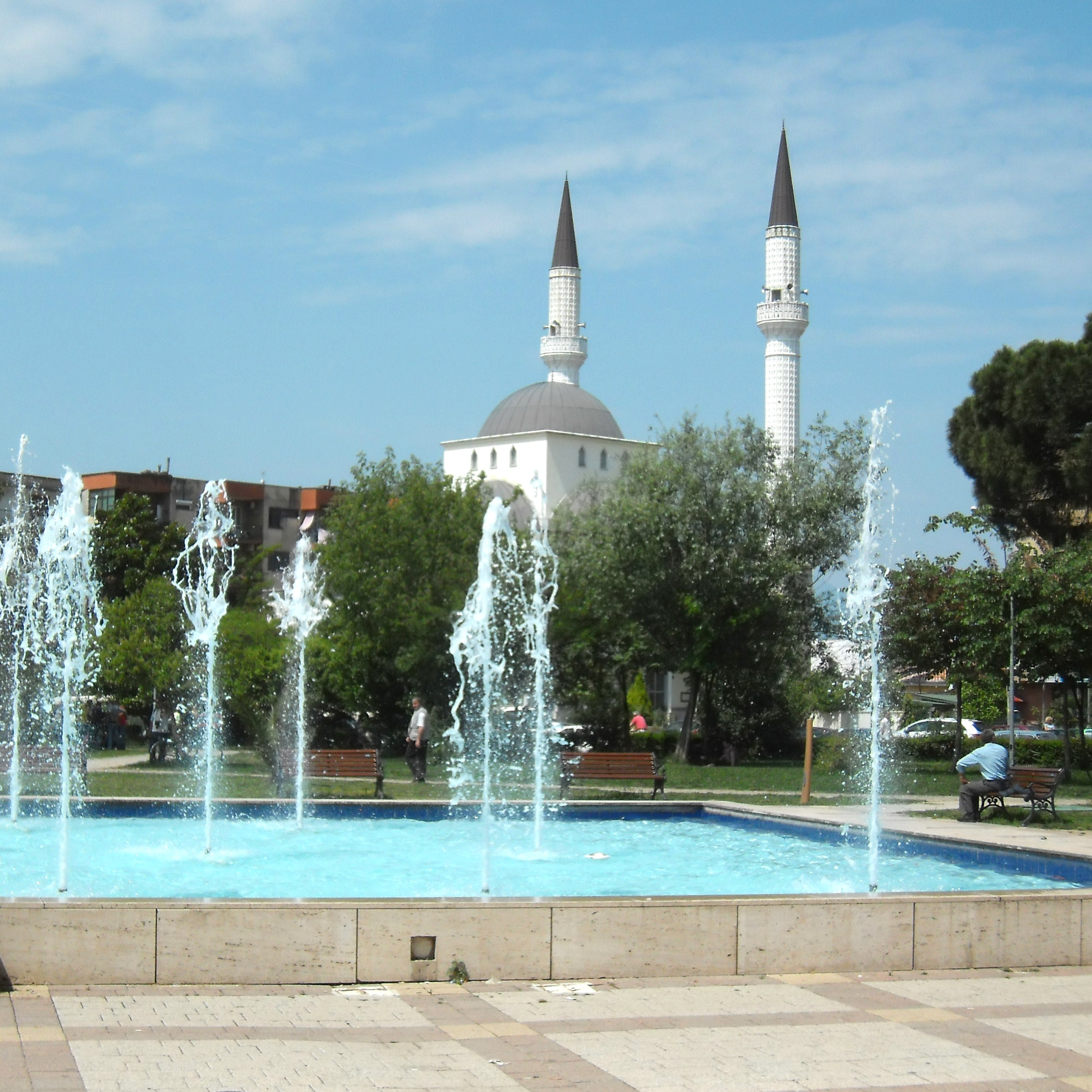 Fountain in Shkodra